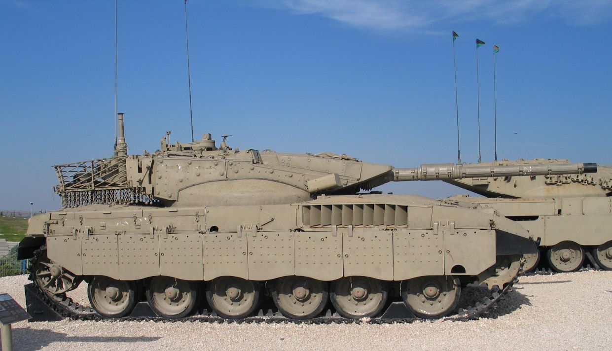 Description: Israeli Merkava Mk II MBT in Yad la-Shiryon Museum, Israel. 2005. Source: Photo by me, User:Bukvoed.